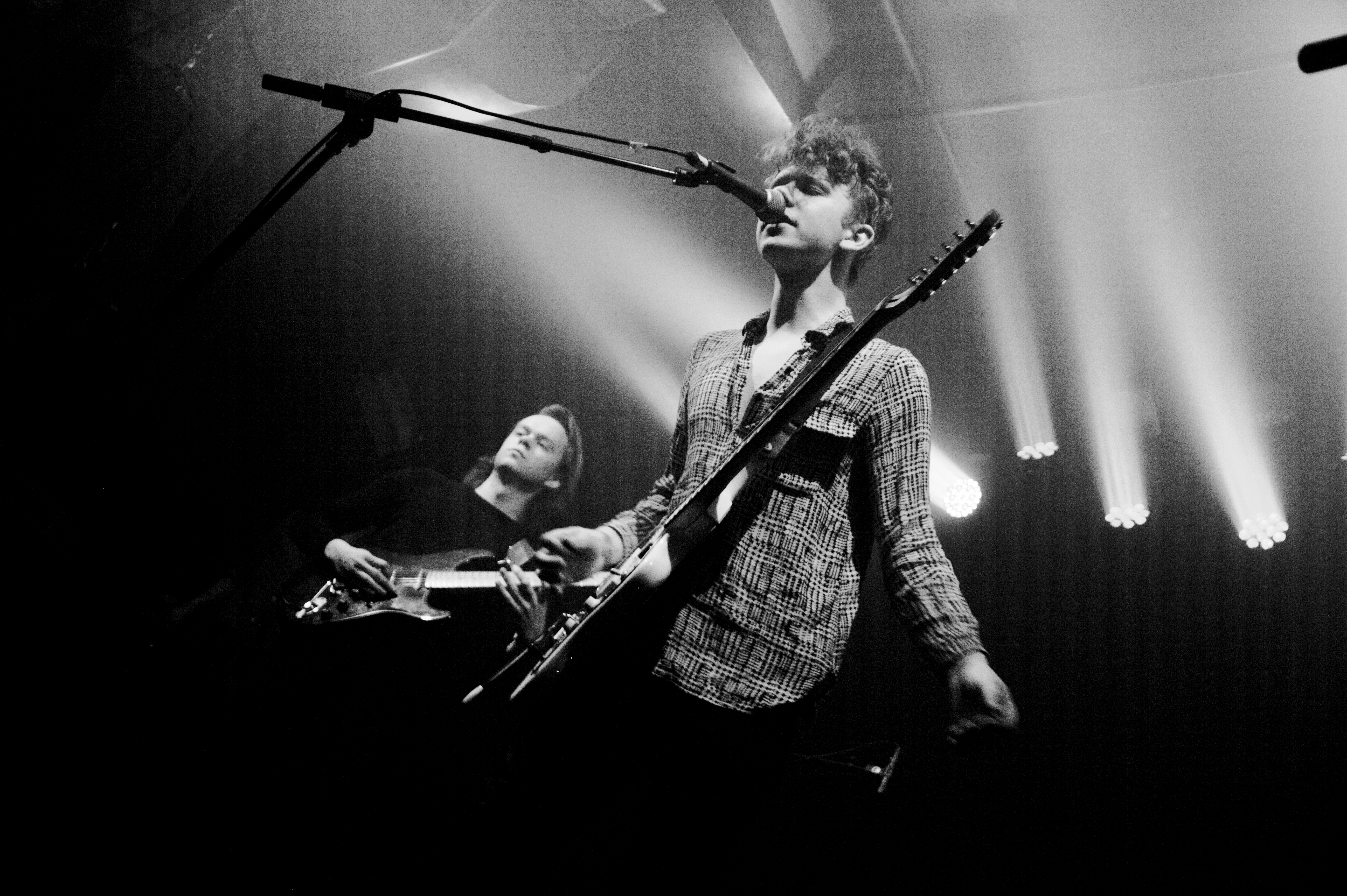 The Boondocks at Tallinn Music Week 2017